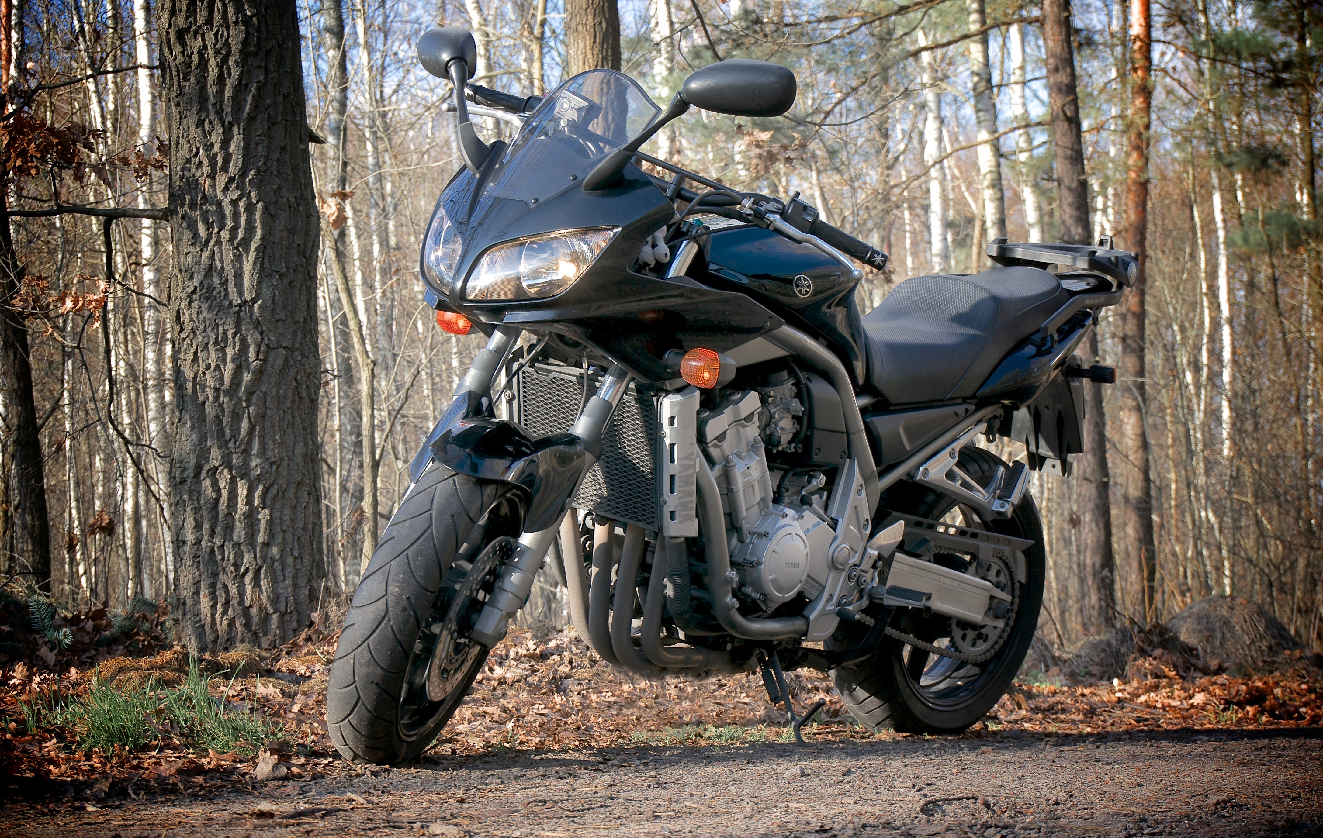 Yamaha FZS 1000S Fazer 2002